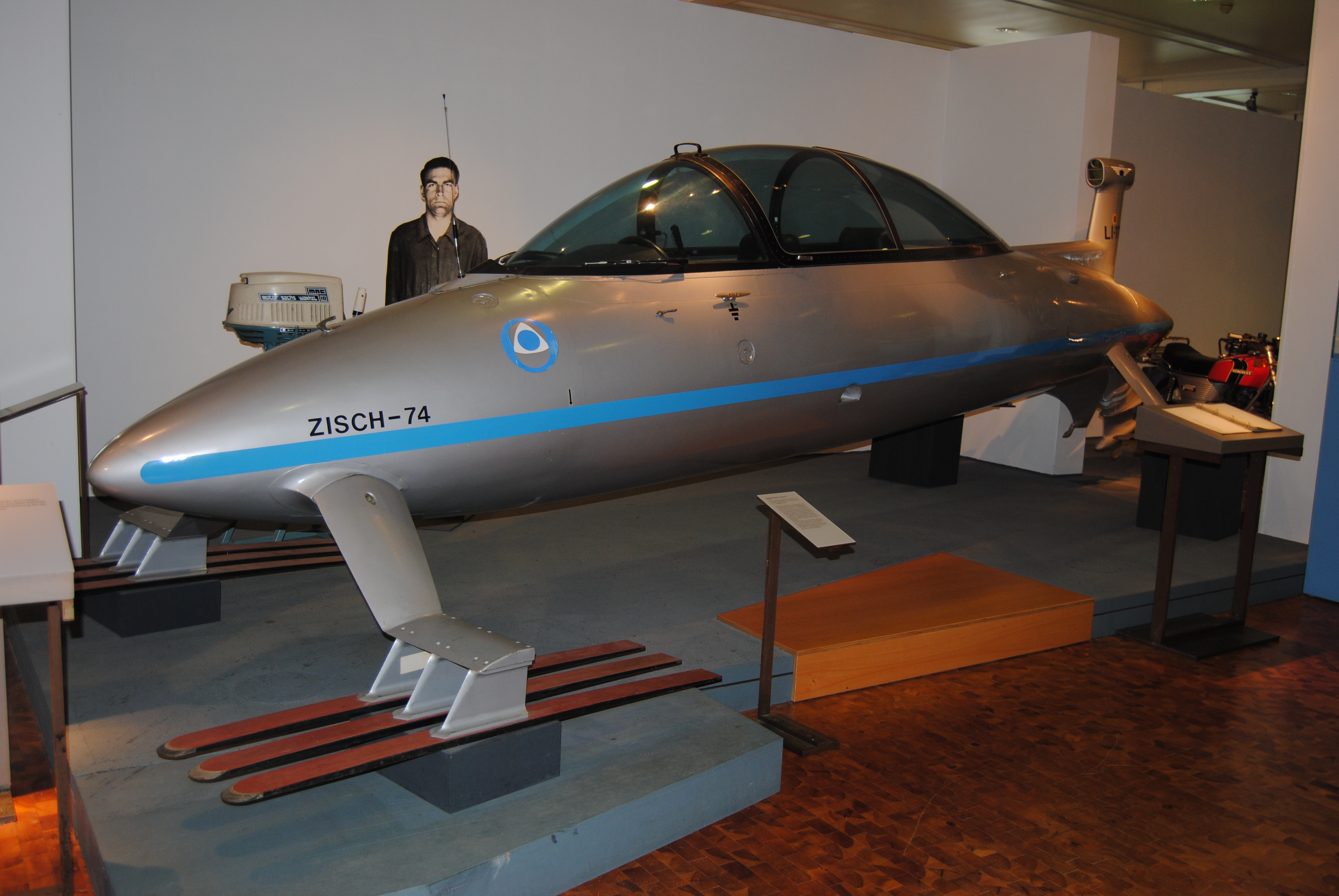 Zisch 74 hydrofoil by Felix Wankel, shown at the Landesmuseum für Technik und Arbeit (Technoseum) Mannheim.